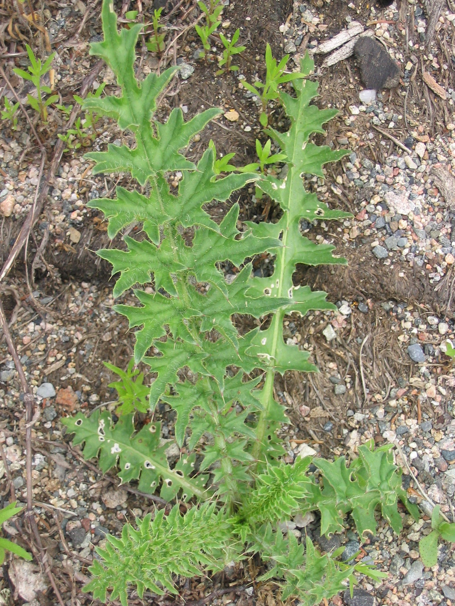 Carduus_acanthoides_3-eheep